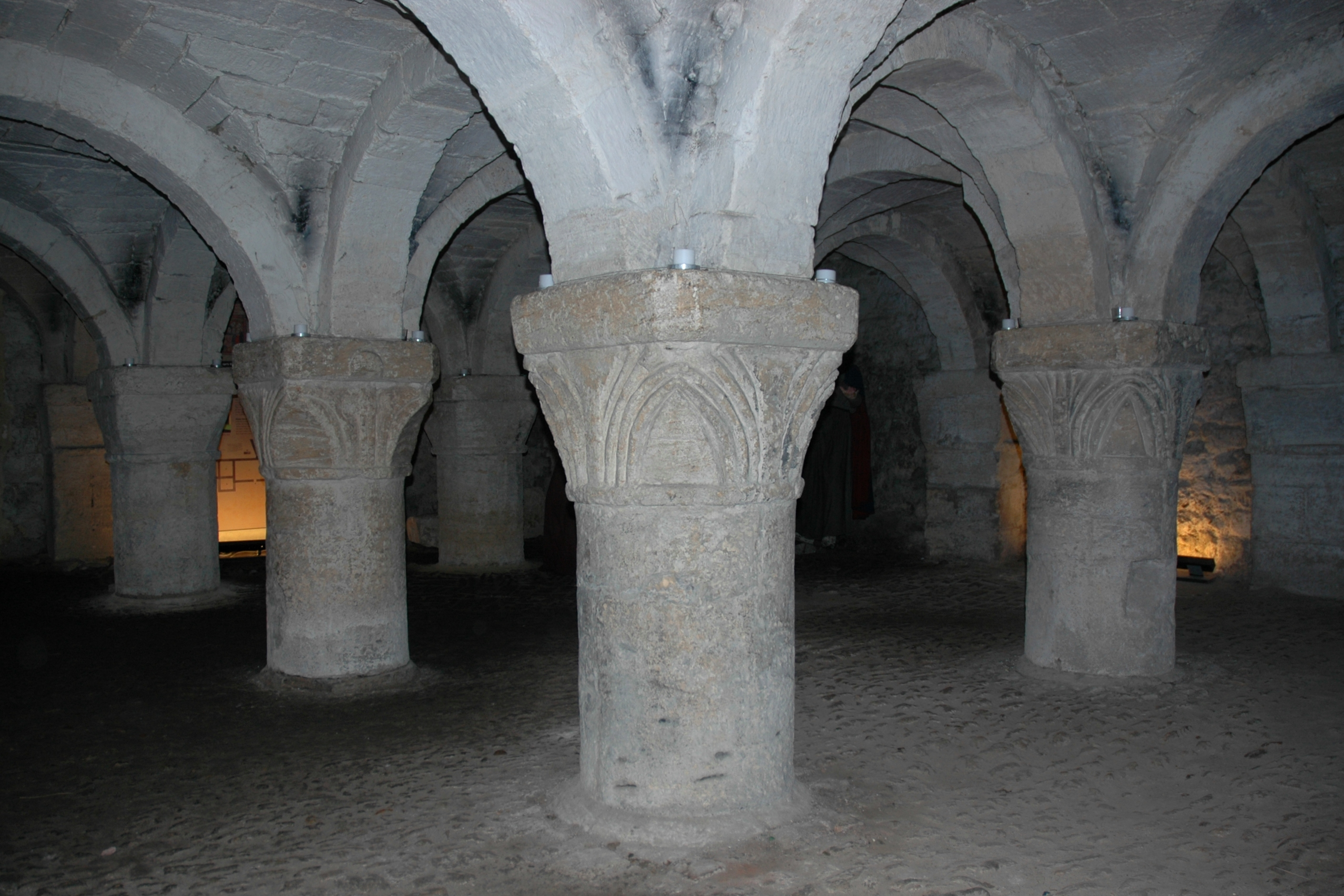 Oxford Castle, England: St George's chapel, an 11th-century Norman crypt